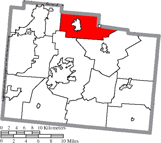 Map of the municipal and township boundaries of Greene County, Ohio, United States, as of the 2000 census, with the location of Miami Township highlighted. Township borders are shown only in unincorporated areas in order to differentiate incorporated and unincorporated areas more clearly.